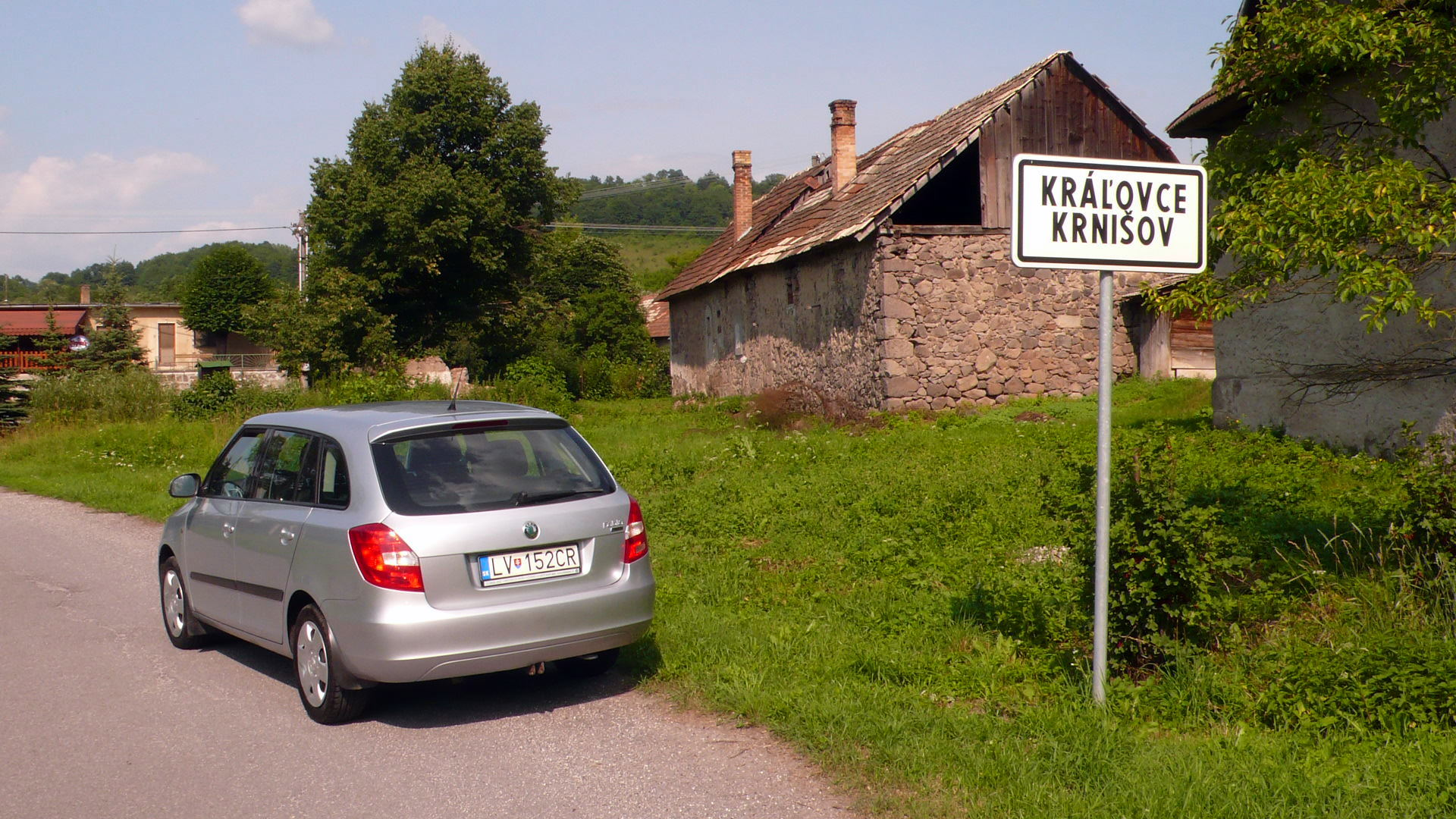 Fabia Estate 1.4 TDI